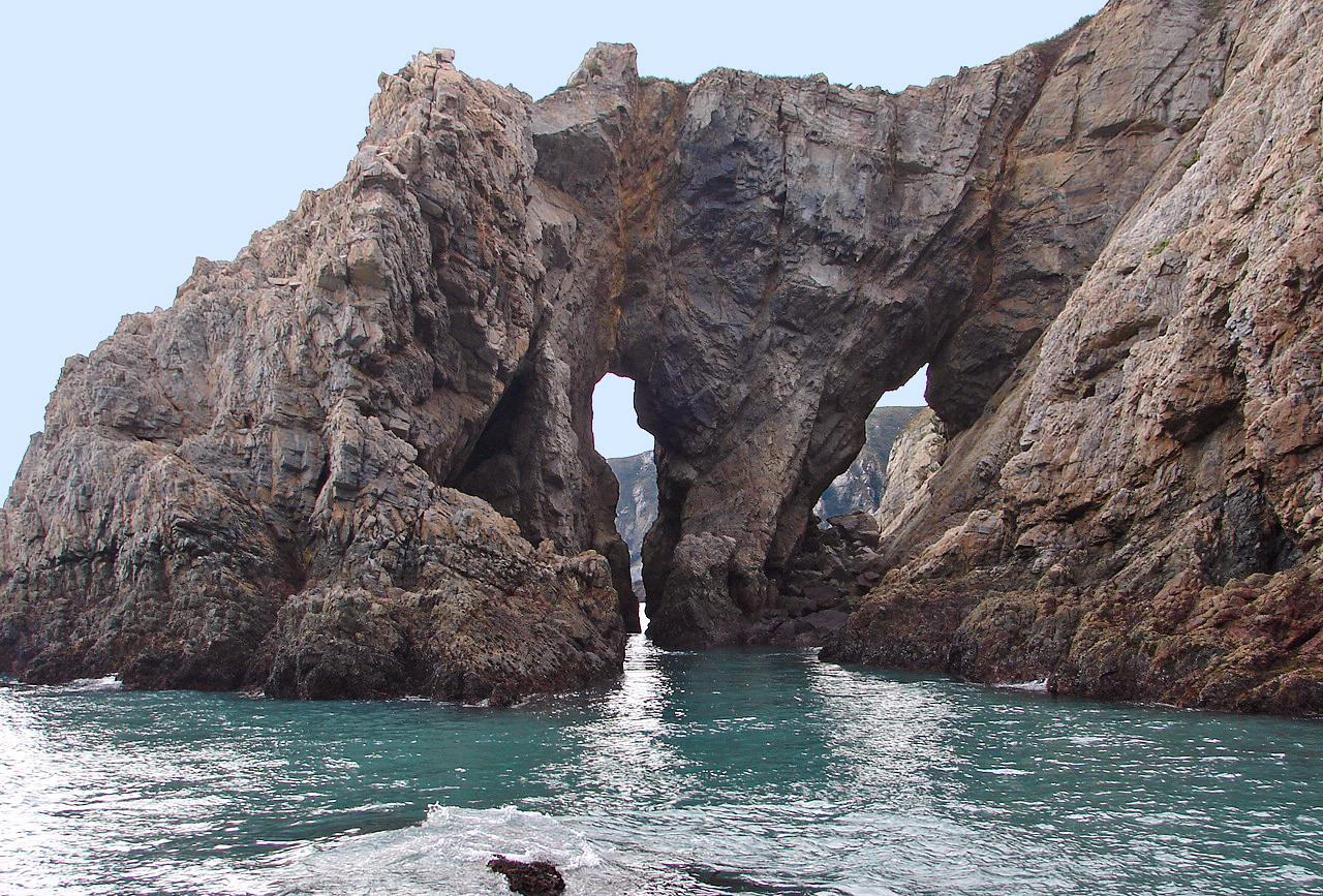 Heuksando is an island in the Yellow Sea located 60 mi from the southwest coast off the port of Mokpo covering an area of 7.6 square miles. Heuksando has about 3,133 residents.